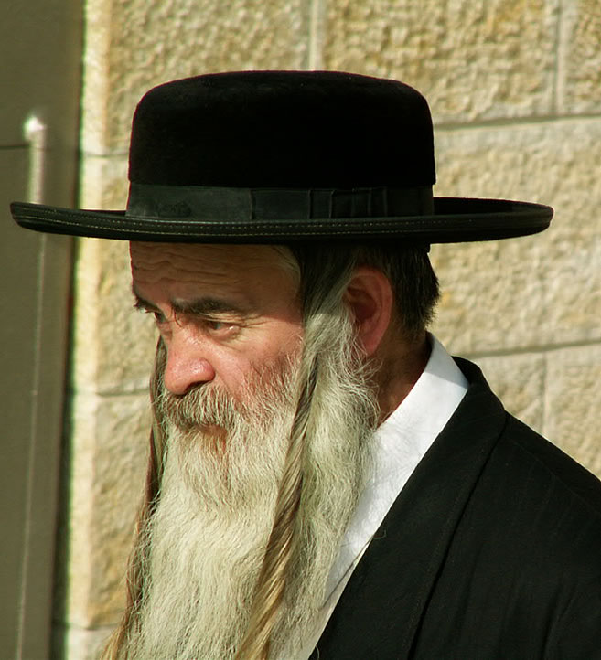 Orthodox Jewish man with long payot, in the Kotel, the Western Wall, Jerusalem's Old City